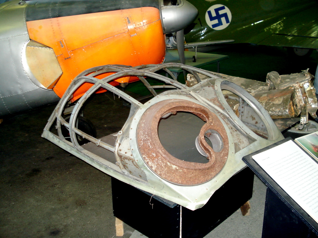 Ju-88 cockpit hood recovered from a German aircraft that crashed in Finland.